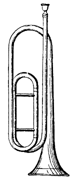 Natural trumpet